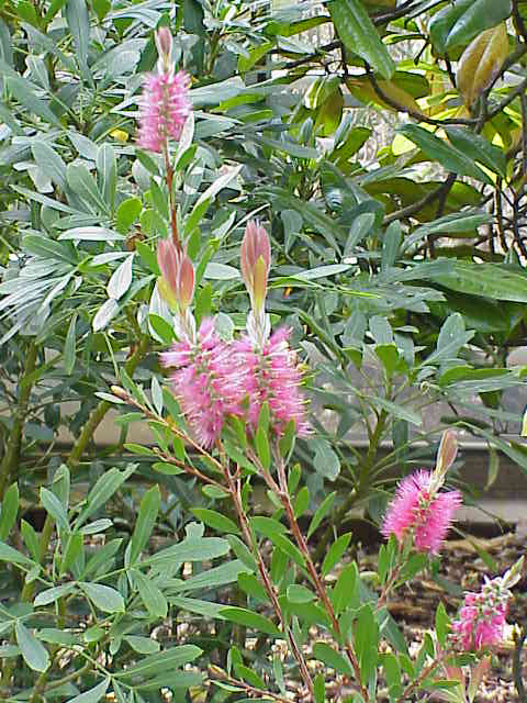 Species: Callistemon citrinus Family: Myrtaceae Image No. 9